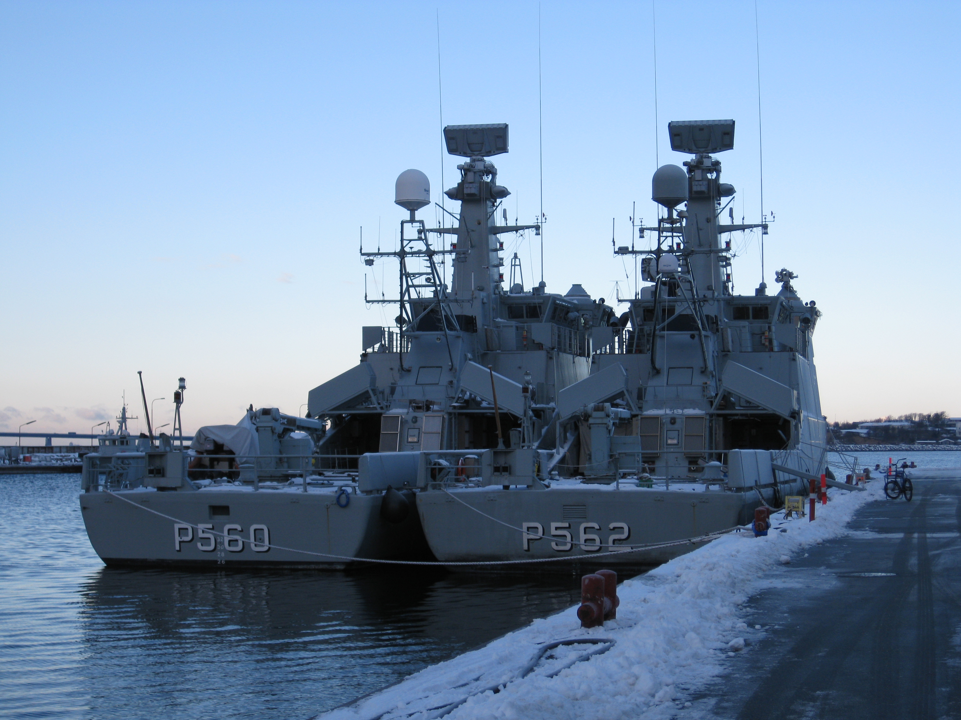 P560 Ravnen and P562 Viben moored at Naval base Korsør